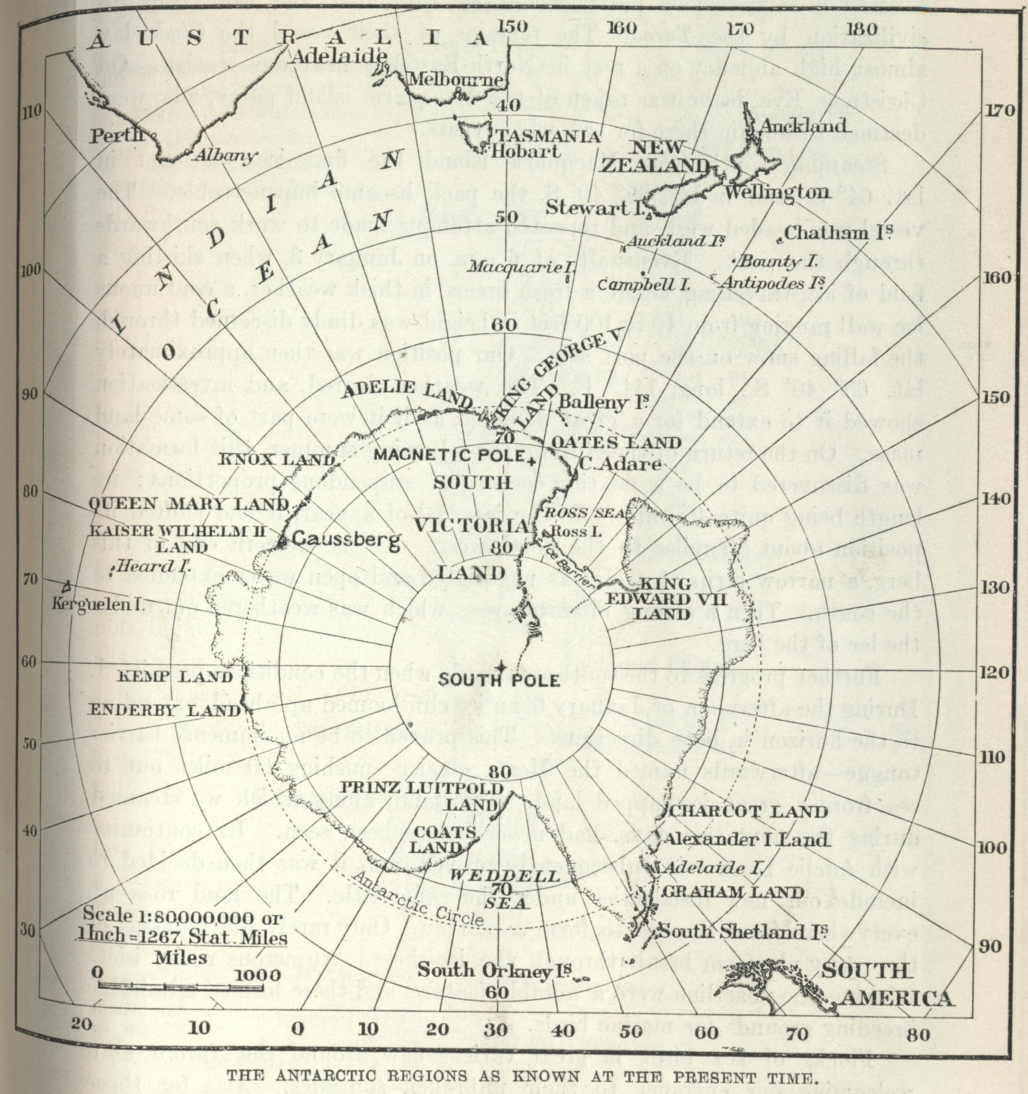 This image was created by the Royal Geographical Society in 1914, and published in the United States the same year.